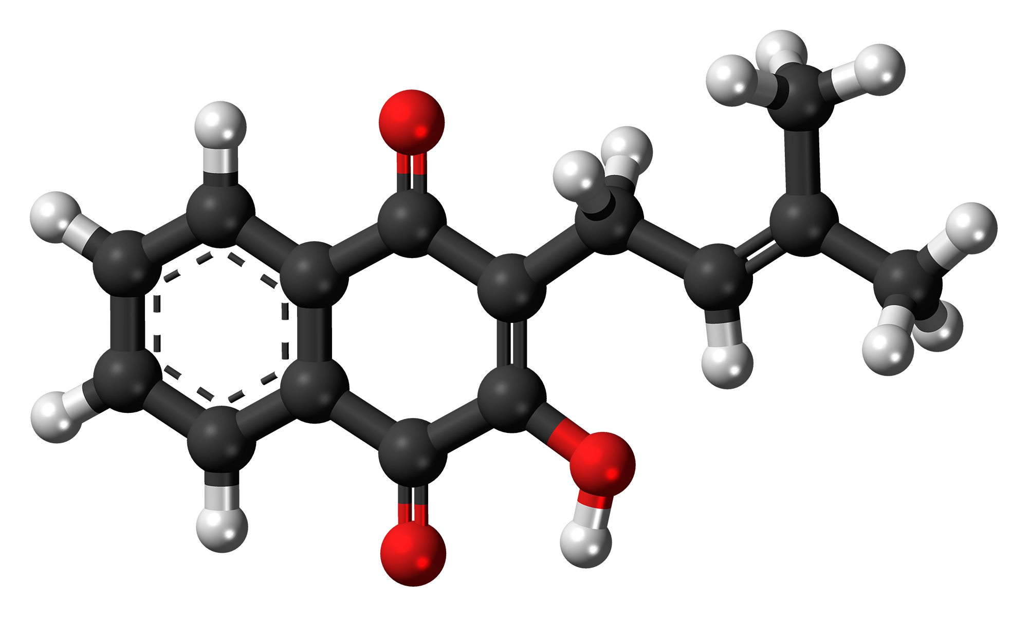 Ball-and-stick model of the lapachol molecule, a compounds isolated from the bark of the lapacho tree. Color code: Carbon, C: black Hydrogen, H: white Oxygen, O: red